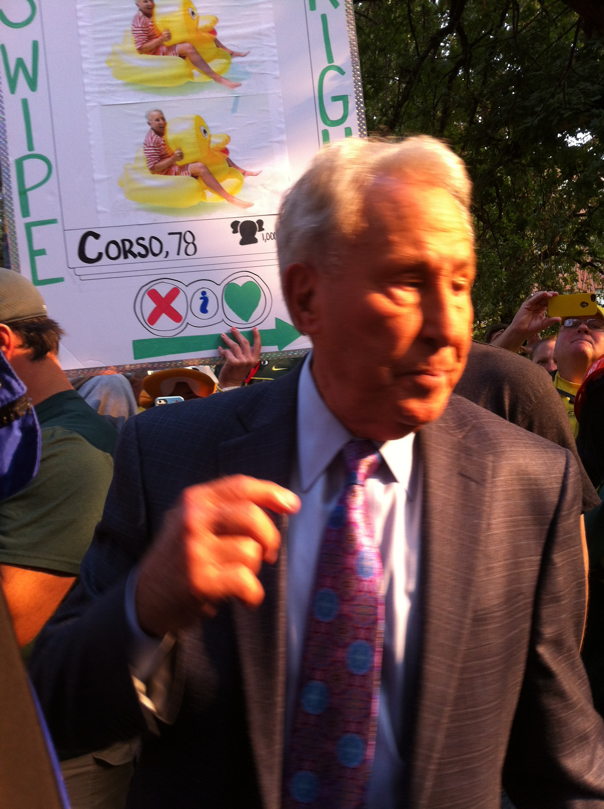 College GameDay analyst Lee Corso standing in front of a sign depicting himself riding a large rubber duck.